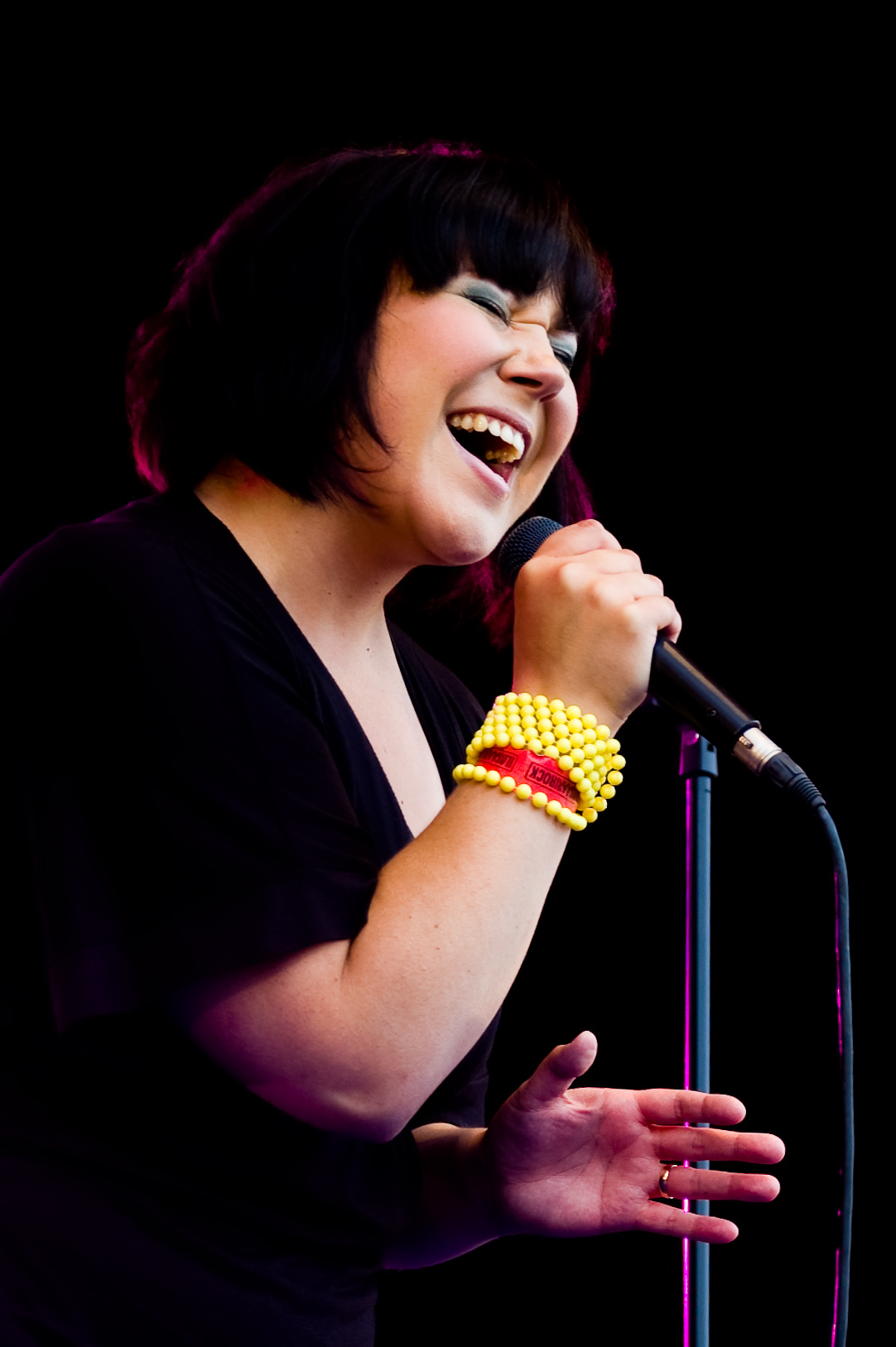 Vocalist Marja Tahvanainen (previously Kiiskilä) of Stella performing at the Ilosaarirock festival on the 13th of July 2008 in Joensuu, Finland.